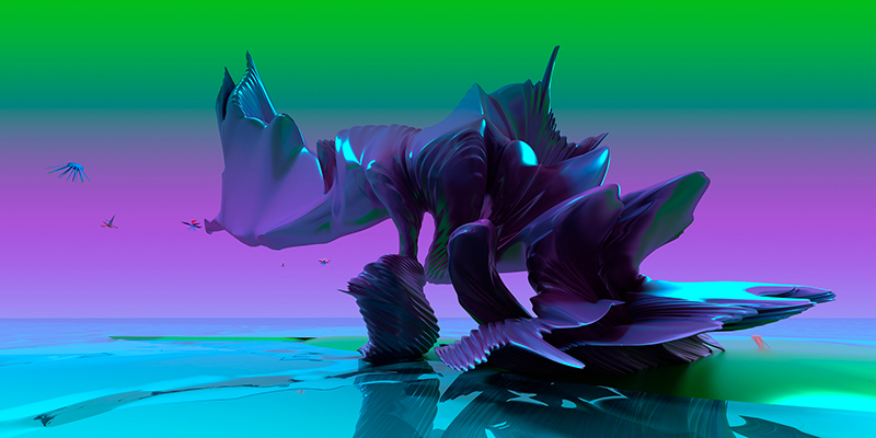 Stepan Ryabchenko, Hunter (2020)